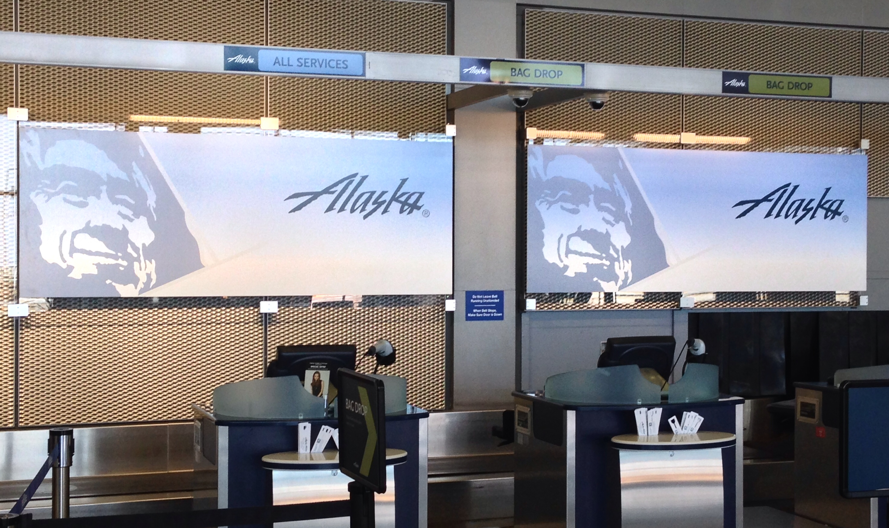 Alaska Airlines Check In, 10000 West O'Hare Ave, Chicago, IL 60666, USA - Jun 2014